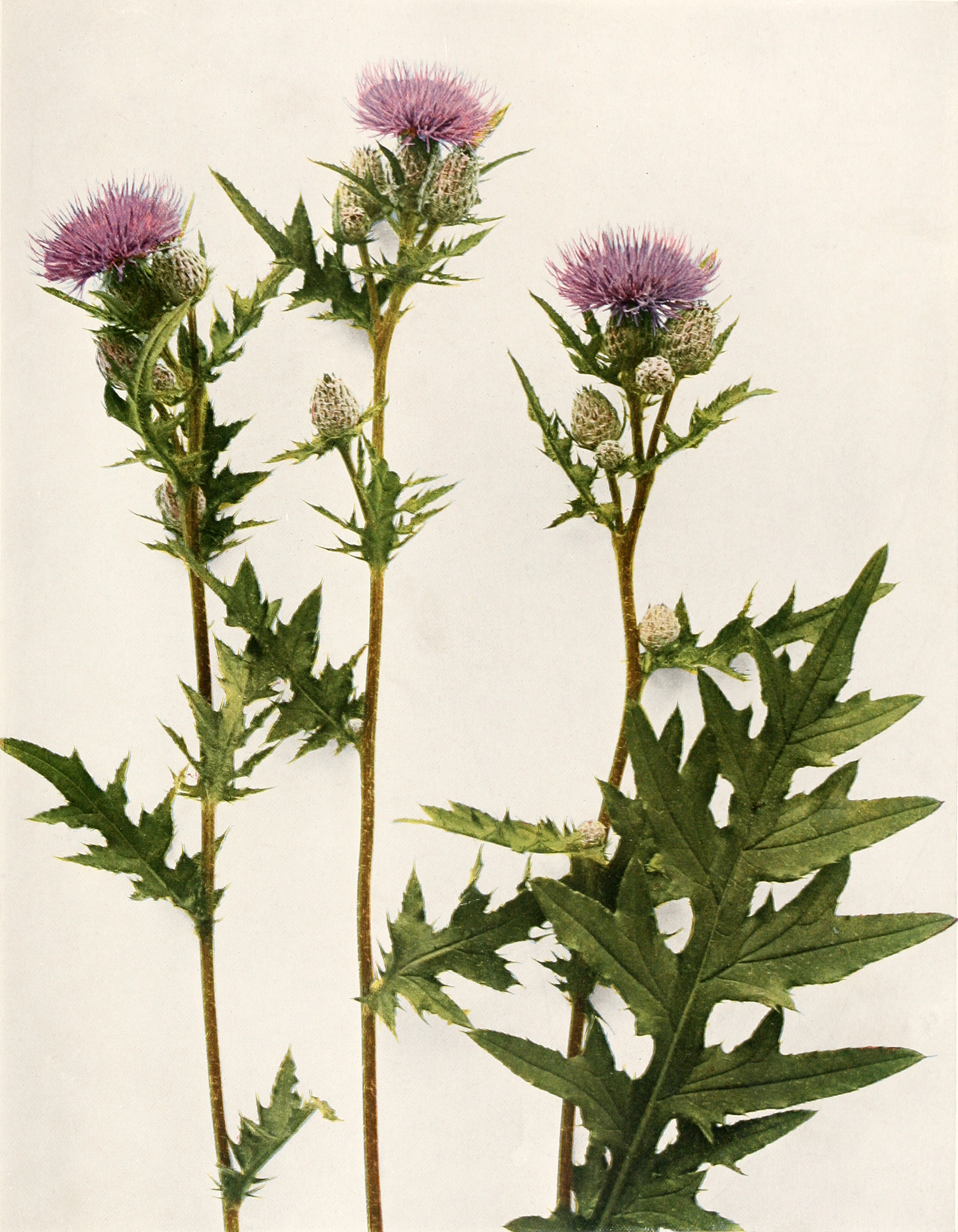 Cirsium muticum Michx. - Swamp thistle, Dunce-nettle, HorsetopsOriginal caption: SWAMP THISTLE - Cirsium muticum